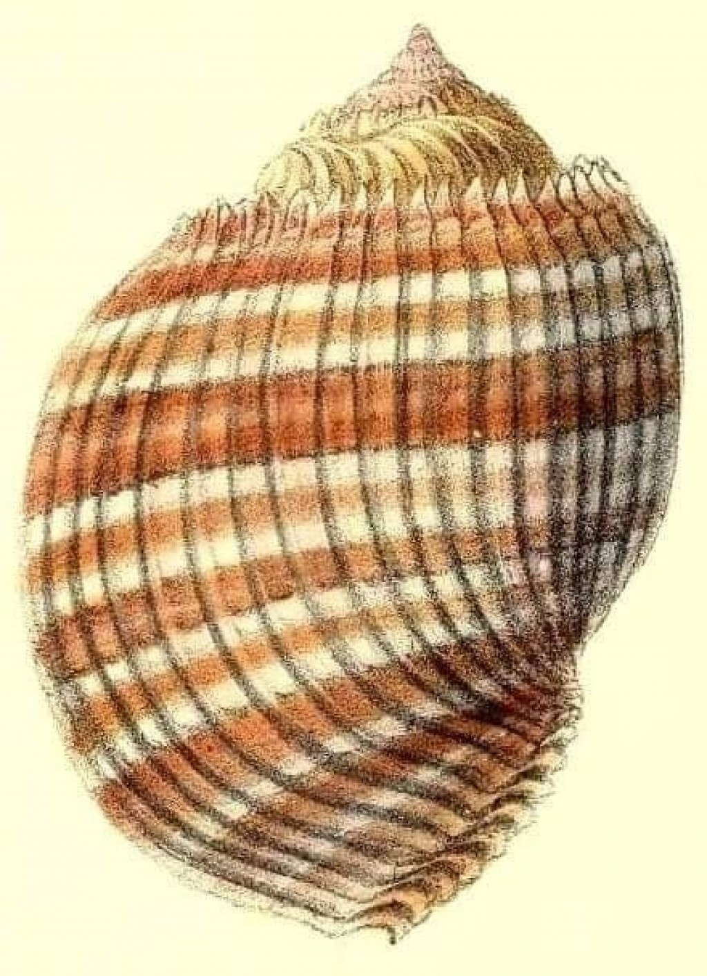 Illustration of the upper side of the seashell Harpa costata (Linnaeus, 1758)[1]. From the south west of the Indian Ocean. ABBOTT, R. Tucker; DANCE, S. Peter (1982). Compendium of Seashells. A color Guide to More than 4.200 of the World's Marine Shells. New York: E. P. Dutton. p. 211. 412 pp. ISBN 0-525-93269-0